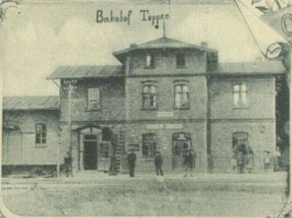 Bahnhof Topper